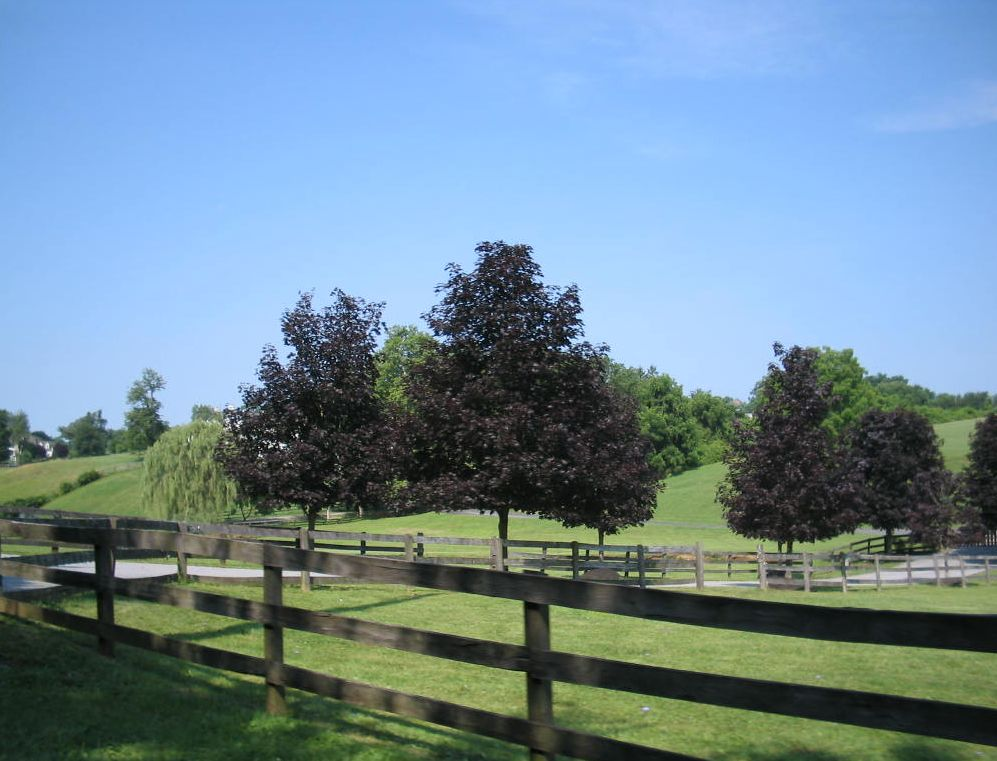 Photo of a typical East Bradford Township meadow on a large-acre private estate. Taken in July 2004 by Gregory Kohs. Location is looking west from Lenape Road, between Darlington and Tigue Roads.